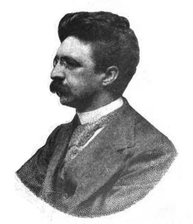 Iwan Gilkin